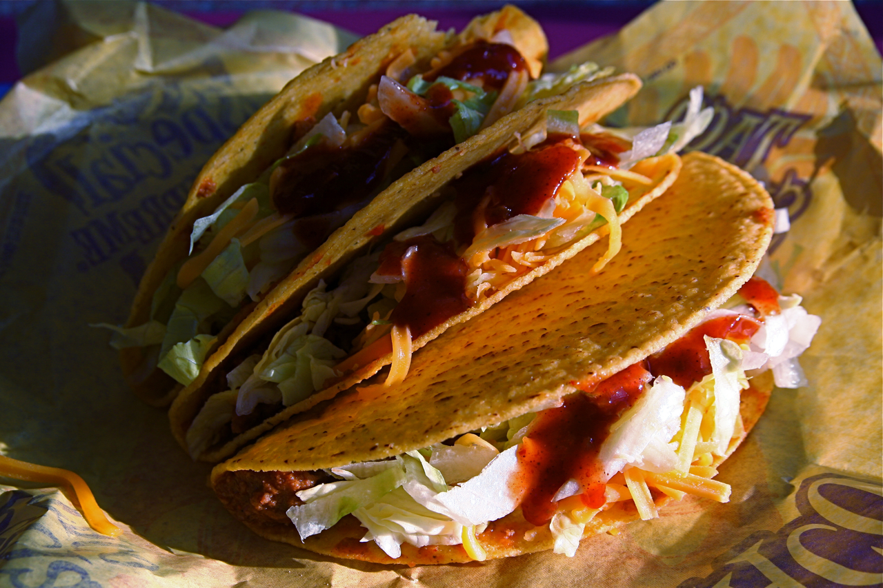 Three hard-shell tacos as served by Taco Bell. Photographer's comment: "I had dinner at Taco Bell and enjoyed a spicy, crunchy, salty, fatty, greasy, gooey meal all by myself."